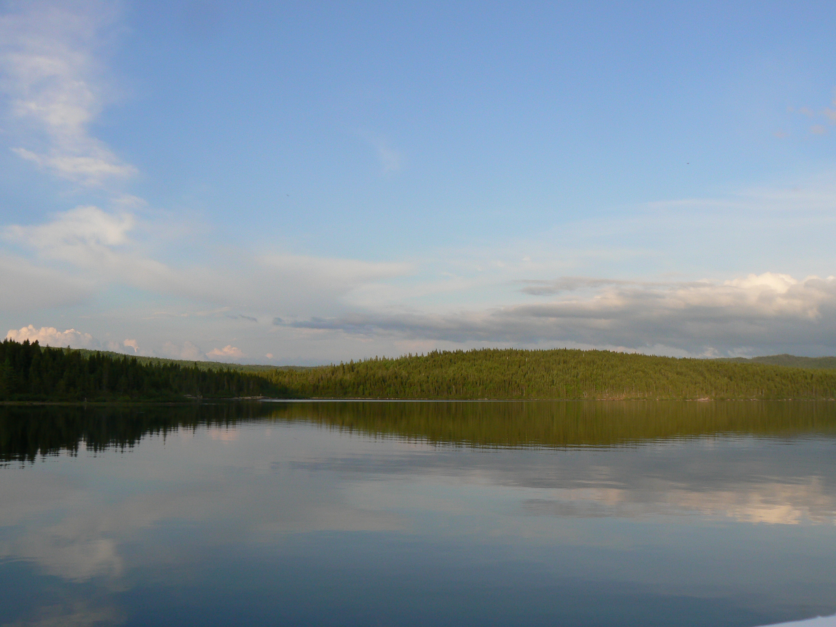 Lac Poivre sur la Zec Onatchiway